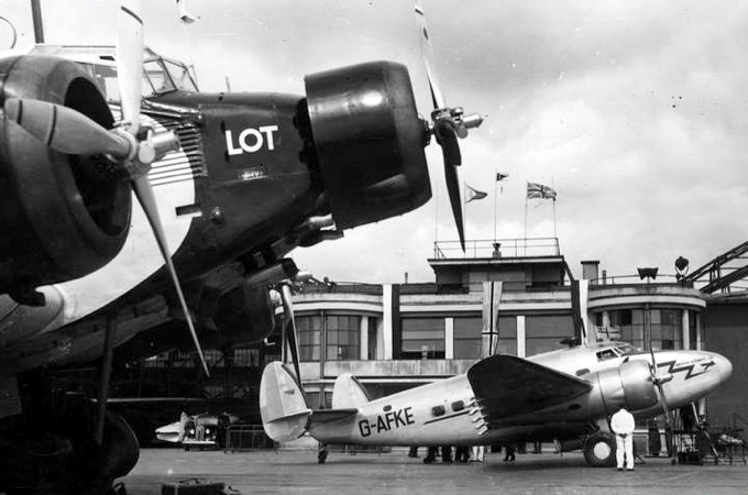 LOT and British Airways aircraft at Warsaw Okecie Airport, 1939